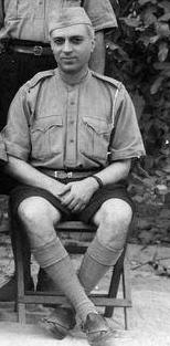 Seval Dal Volunteers from Allahabad Standing(lef to right) Malkhan Singh, Mohammad Yunus, Brahmeshwar Nath Pandey, Chandra Bhal Sitting (left to right) Rajnit Pandit, Sri Praksh, Brahma Prakash Sharma, Sri Krishna Datta Paliwal, Jawaharlal Nehru